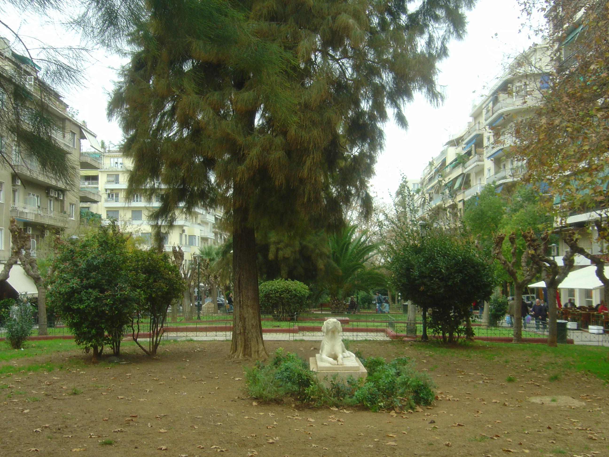 Fokionos Negri street in Athens